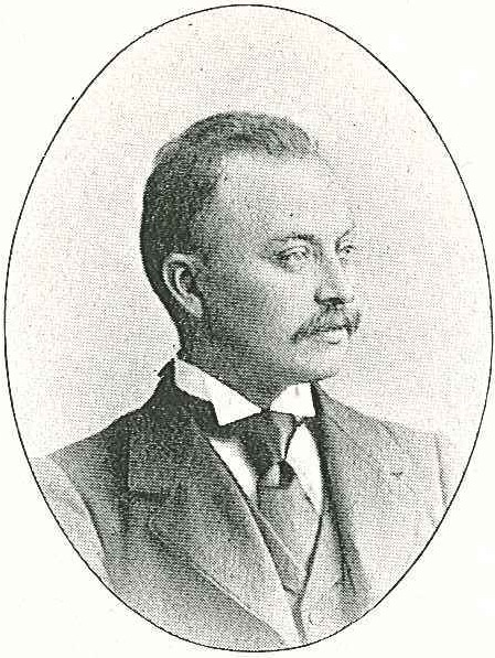 Jules Åkerman (1861-1951), Swedish professor of surgery at Karolinska Institutet.